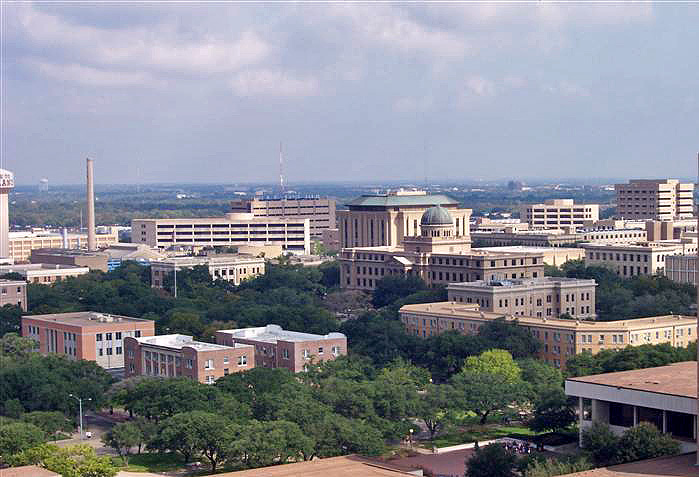 View of a portion of the Texas A&M University campus from the top of the North End-zone of Kyle Field, at College Station, Texas, United States.